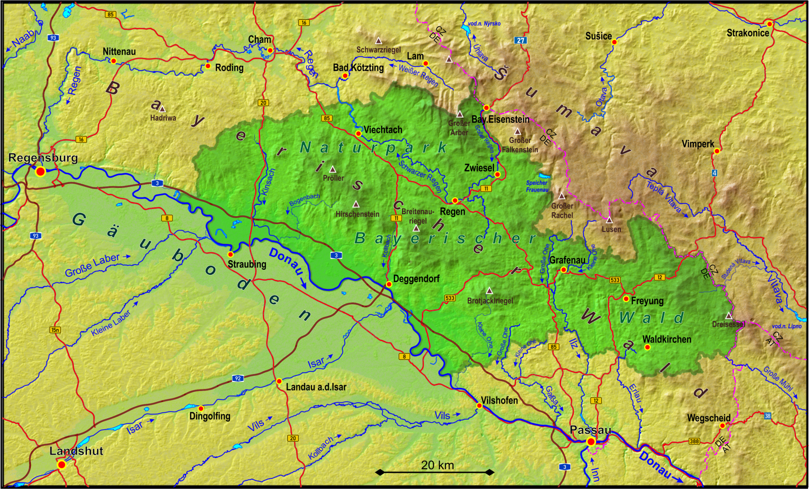 Map of the position and topography of the Naturpark Bayerischer Wald (emphasized in green)